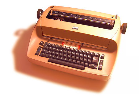 An IBM Selectric typewriter, model 713 (Selectric I with 11" writing line), circa 1970.